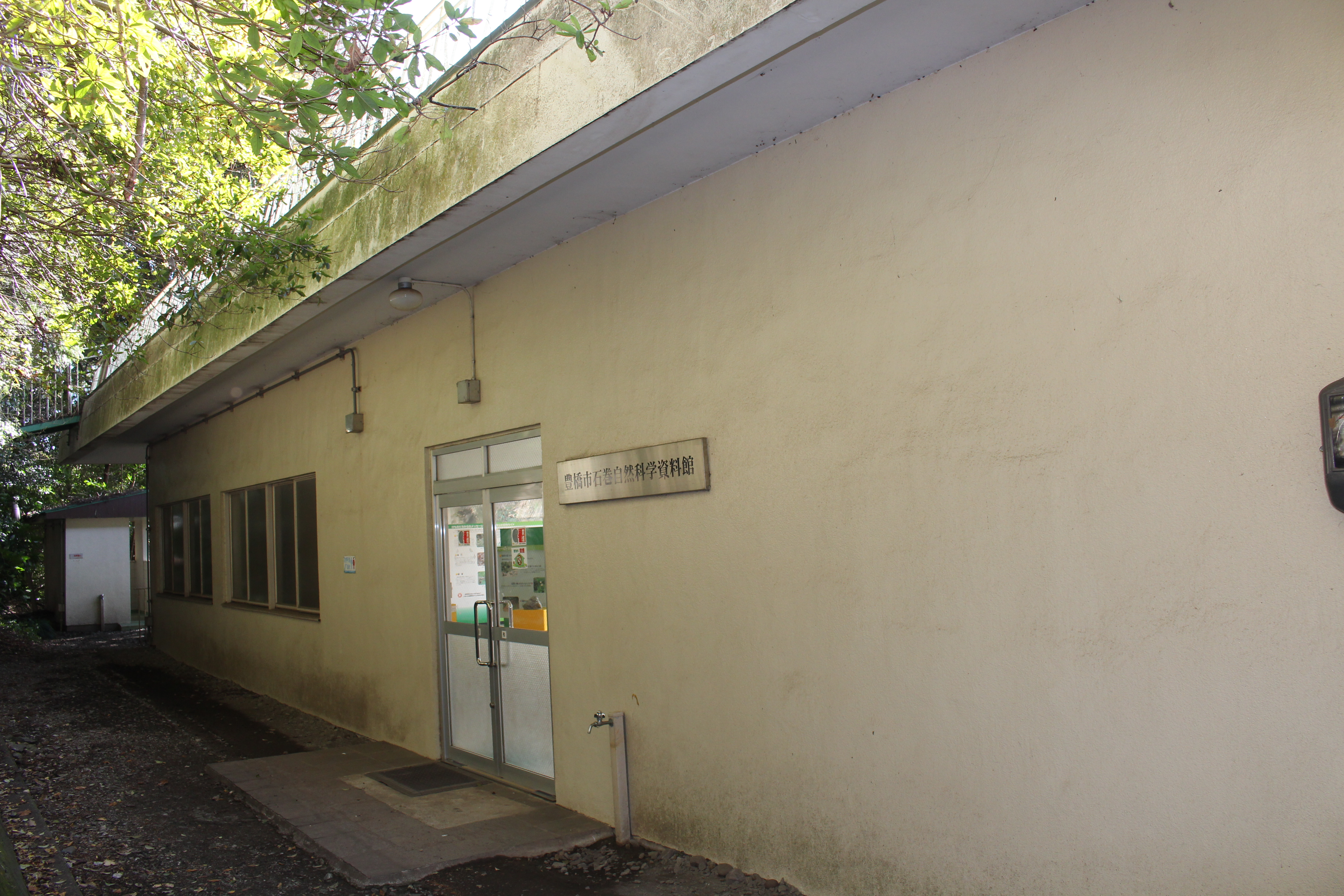 Mount Ishimaki Natural Scientific Museum, in Toyohashi, Aichi prefecture, Japan.